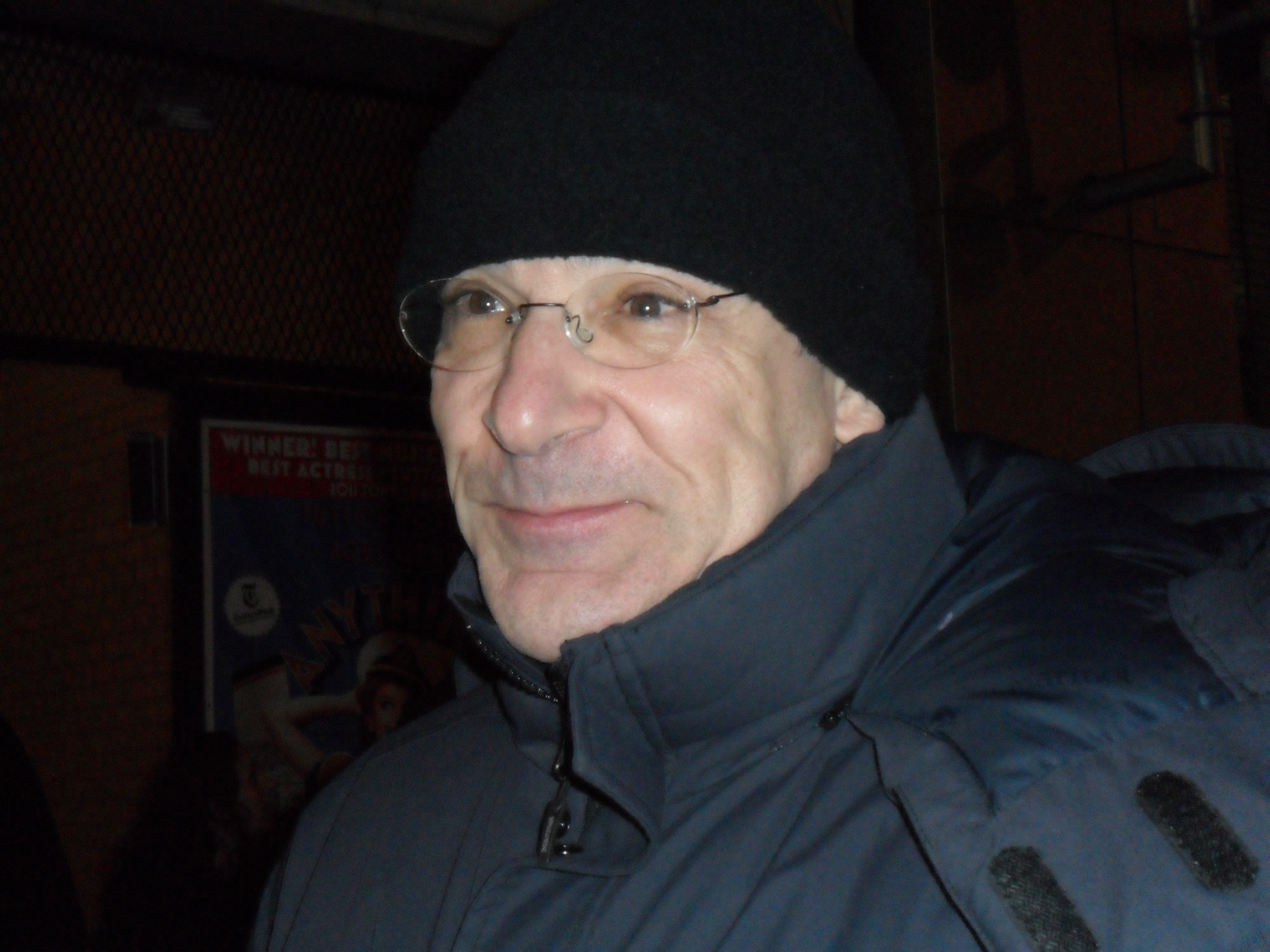 Image of Mandy Patinkin on January 13, 2012, outside the Ethel Barrymore Theatre